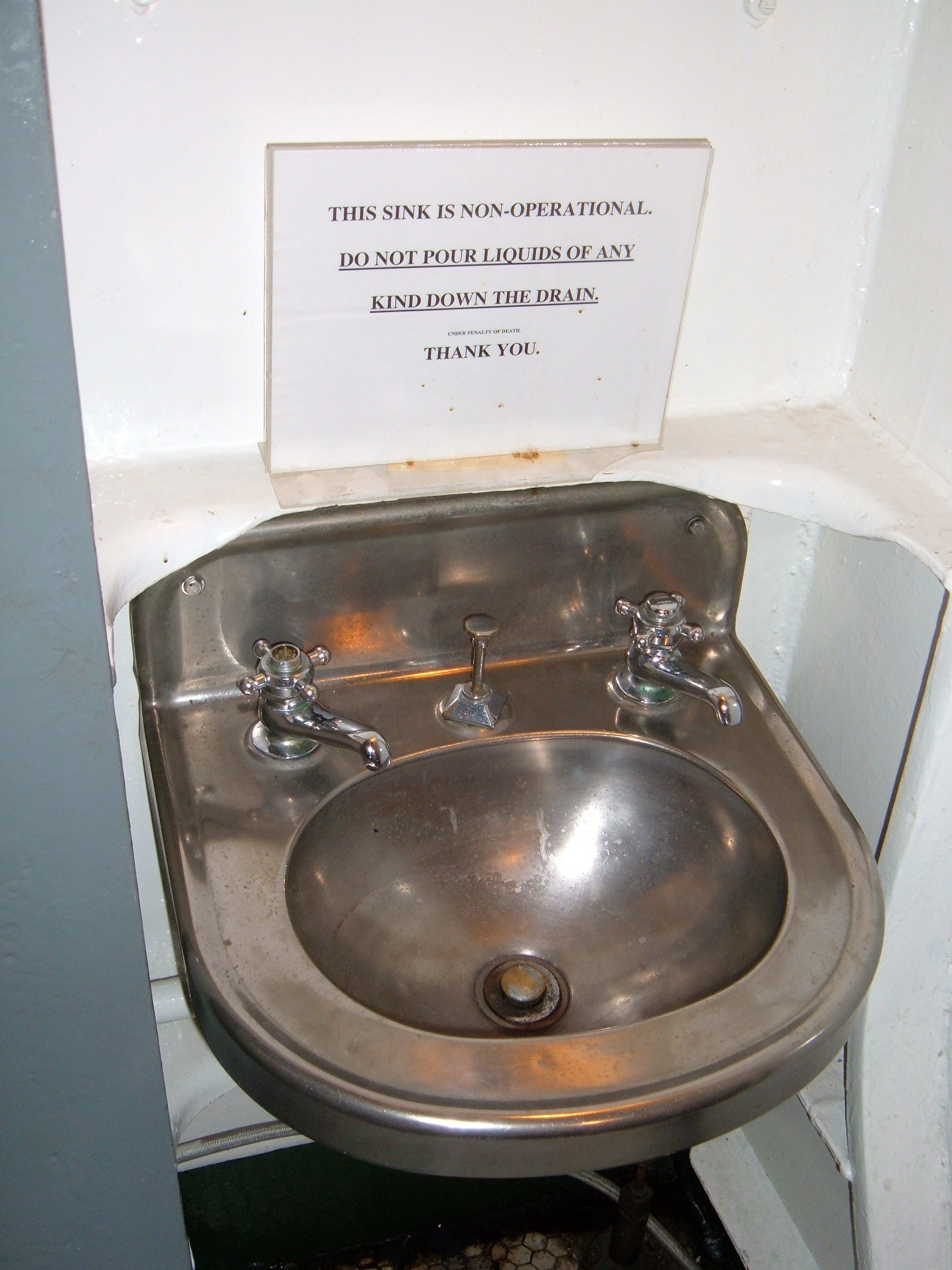 Sink located in the after section of the after battery compartment of the USS Pampanito (SS-383), berthed at Fisherman's Wharf in San Francisco.